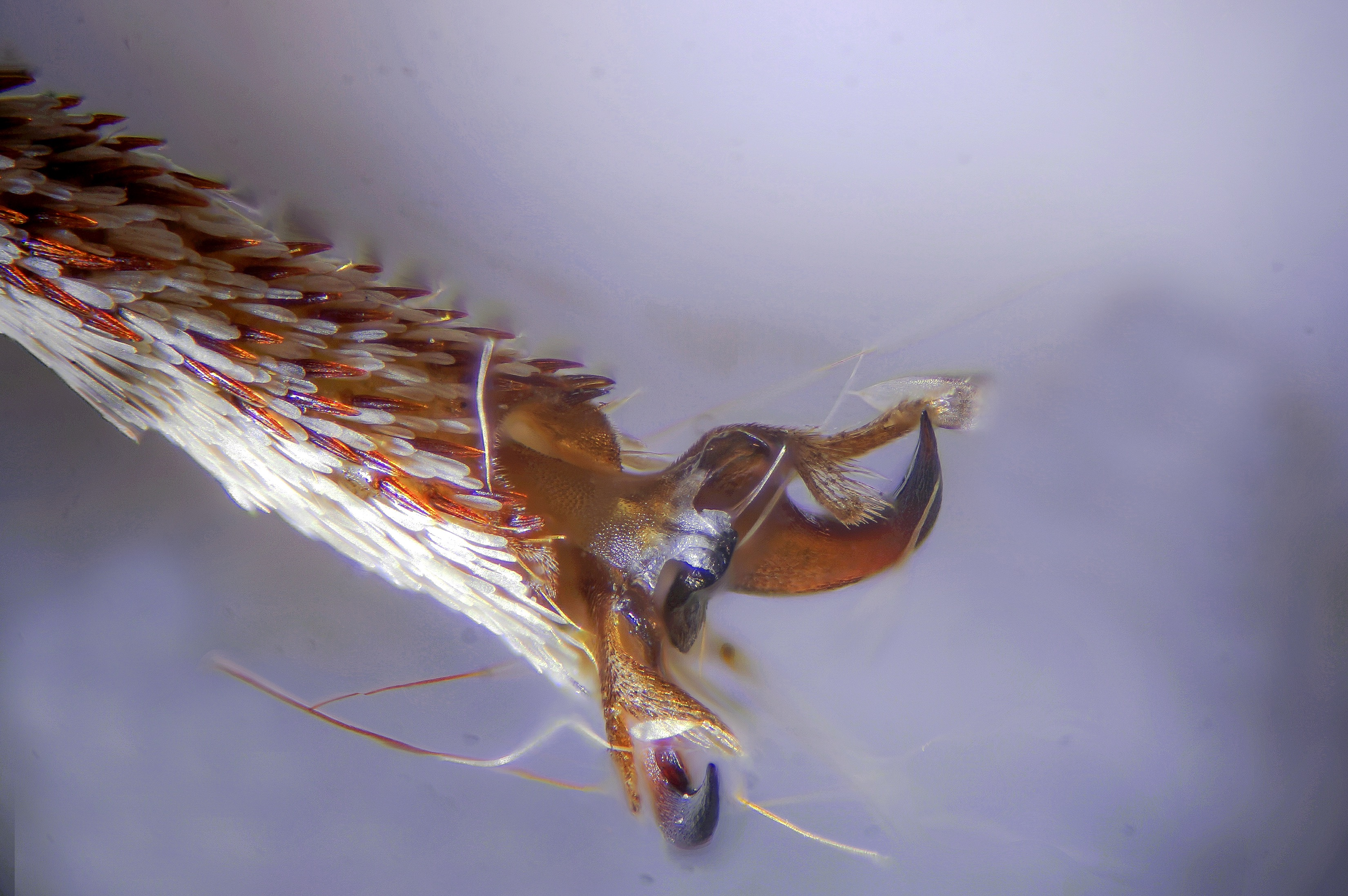 Foot of hawk moth (Sphingidae). It is through this mechanism insects can sit on any surface.